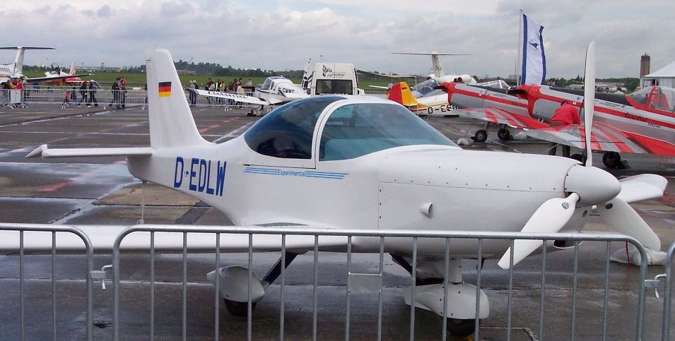 BRDITSCHKA HB-207R ALFA D-EDLW at ILA 2006